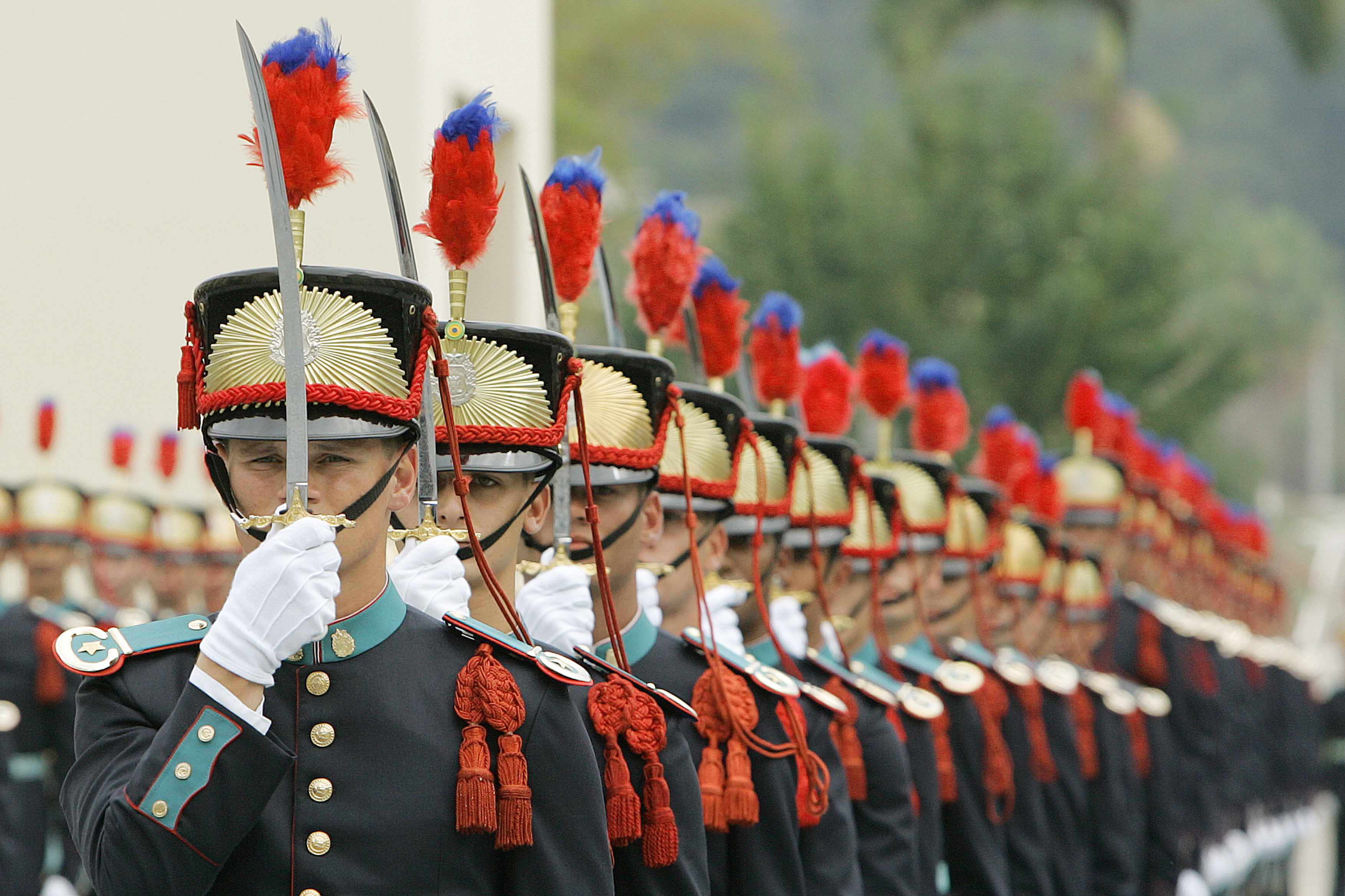 Resende, RJ - Military parade at the Academia Militar das Agulhas Negras (Brazilian Army), during new cadets' graduation cerimony.